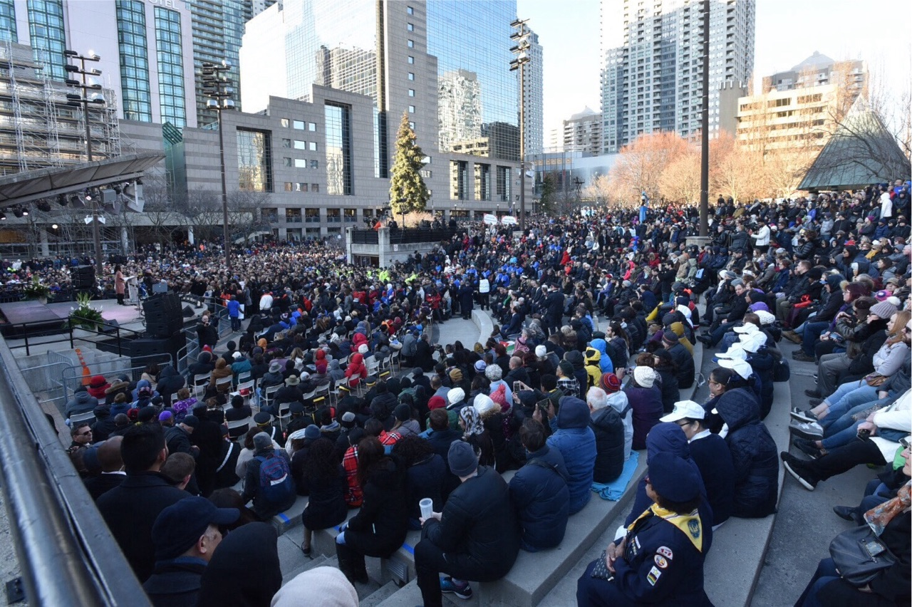 I joined with thousands of Canadians to pay my respects to the victims of the attack in Toronto. Our prayers and thoughts continue to be with the loved ones of everyone impacted. As we come to terms with the loss and heartbreak from Monday’s attack, we will continue to support the families of the victims as they face the unimaginable. Even while mourning, the people of Toronto, their compassion, community, and spirit remain strong.